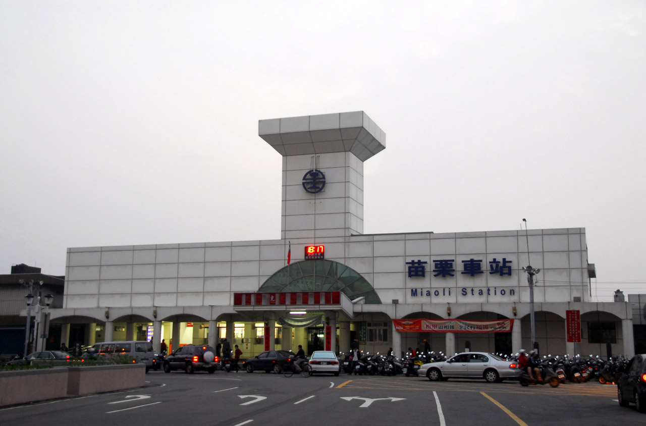 Miaoli Station.